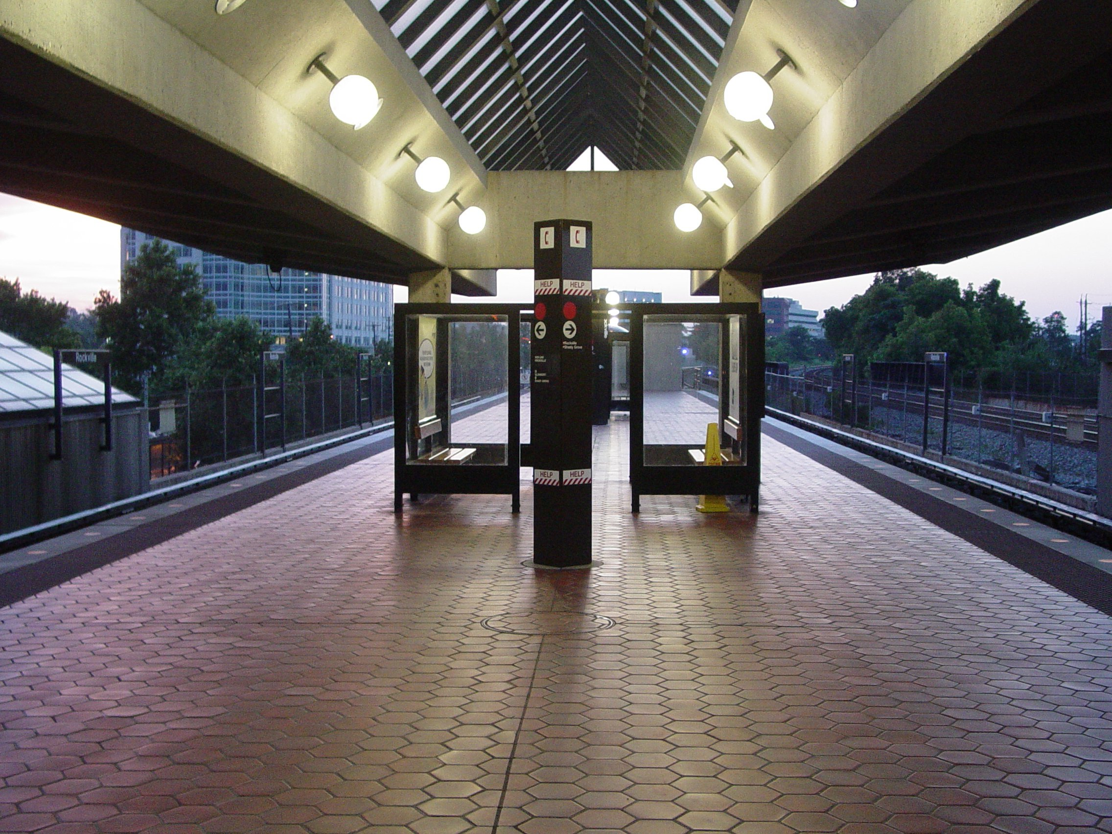 Metro platform at Rockville station in June 2004